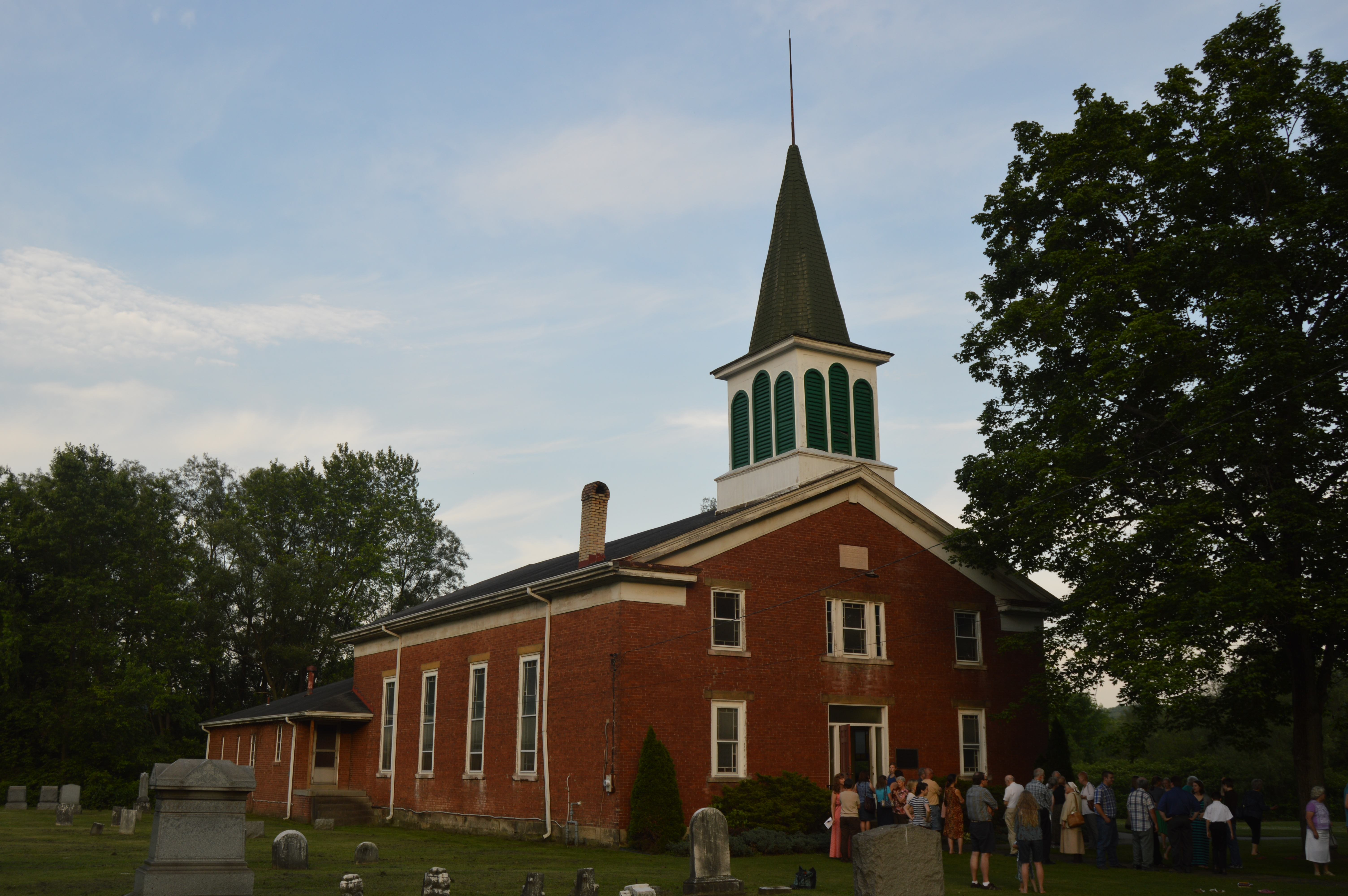 Northern side and front of the Darlington Reformed Presbyterian Church (PCA), located at 140 First Street in Darlington, Pennsylvania, United States. The worship service has been over for quite a while, but most of the worshippers are standing around socializing.